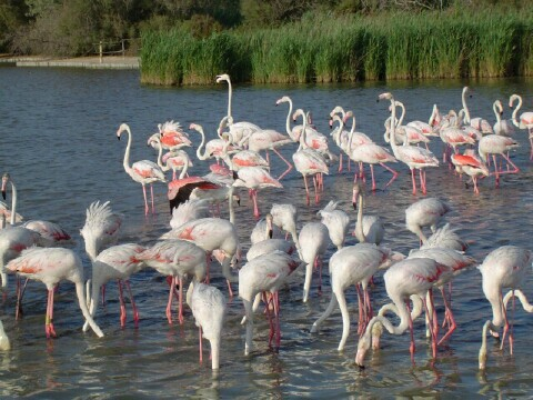 Flamingos in the Camargue, photographed 2004 by Jeremy Shapiro.